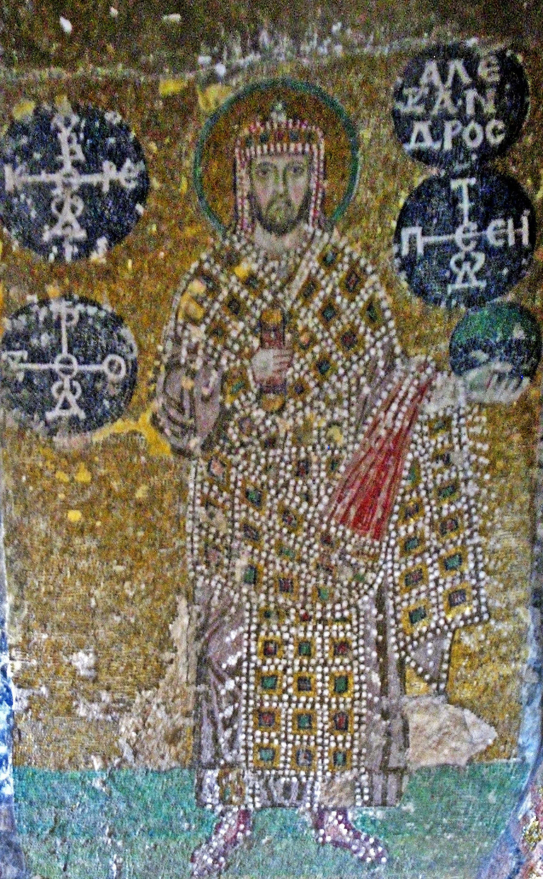 Mosaic of Emperor Alexandros in Hagia Sophia in Istanbul.